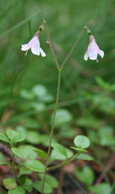 Twinflower (Linnaea borealis) As its name implies, this is a plant of northern latitudes, and it is not common in Britain.